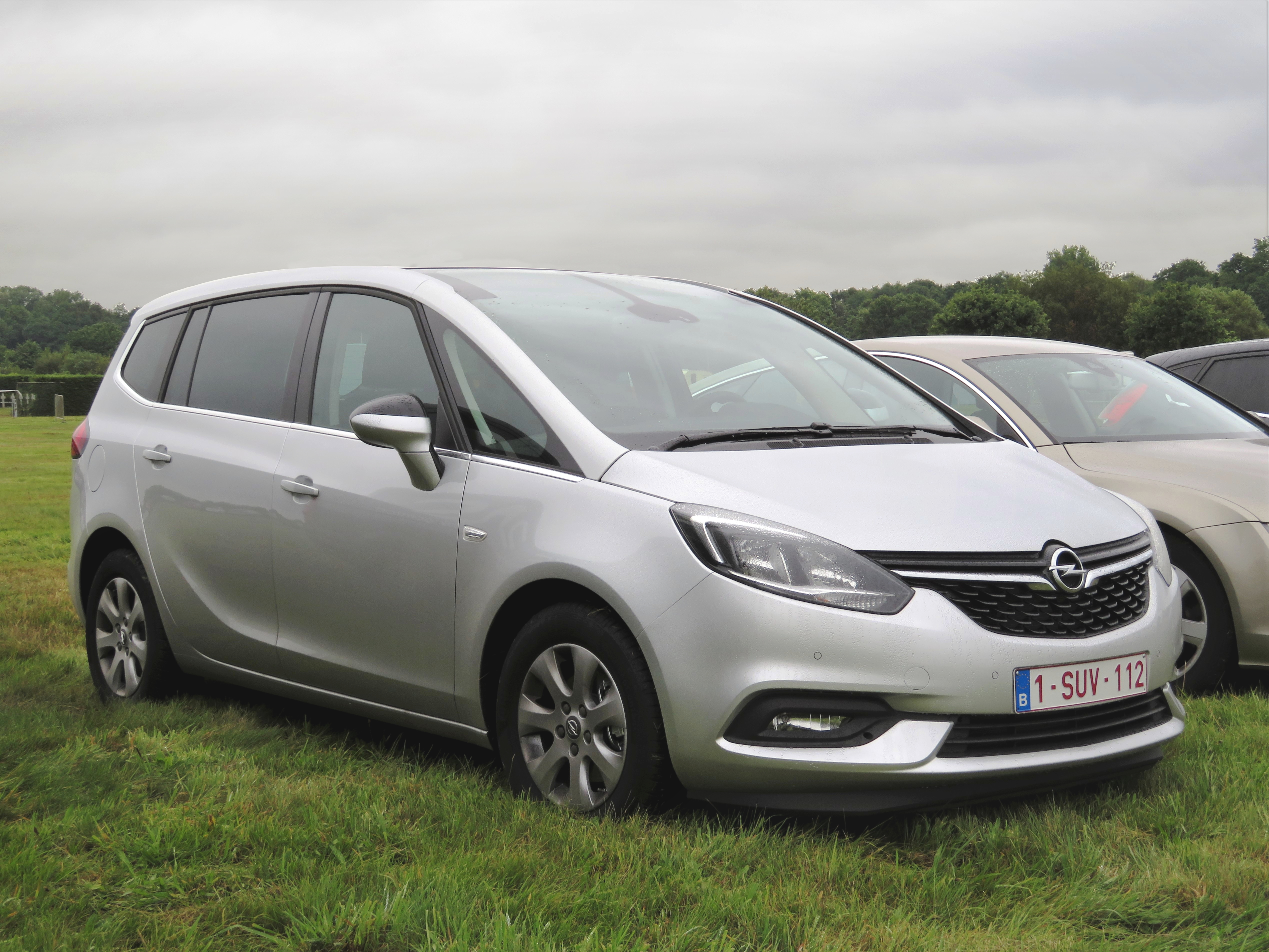 Opel Zafira after they tamed its looks with the 2016 facelift at Schaffen Diest (2017)